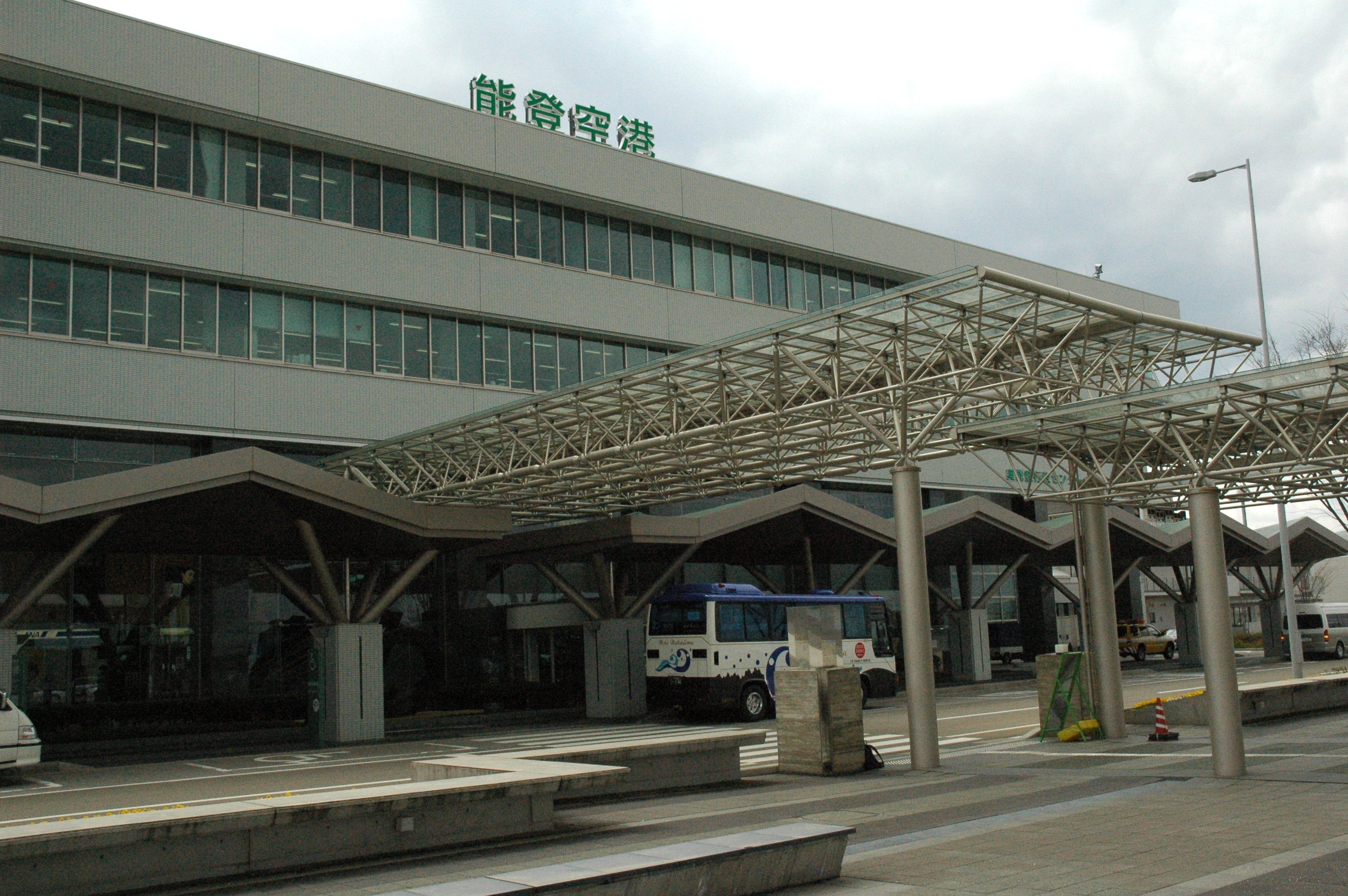 Noto Airport terminal building 能登空港ターミナルビル